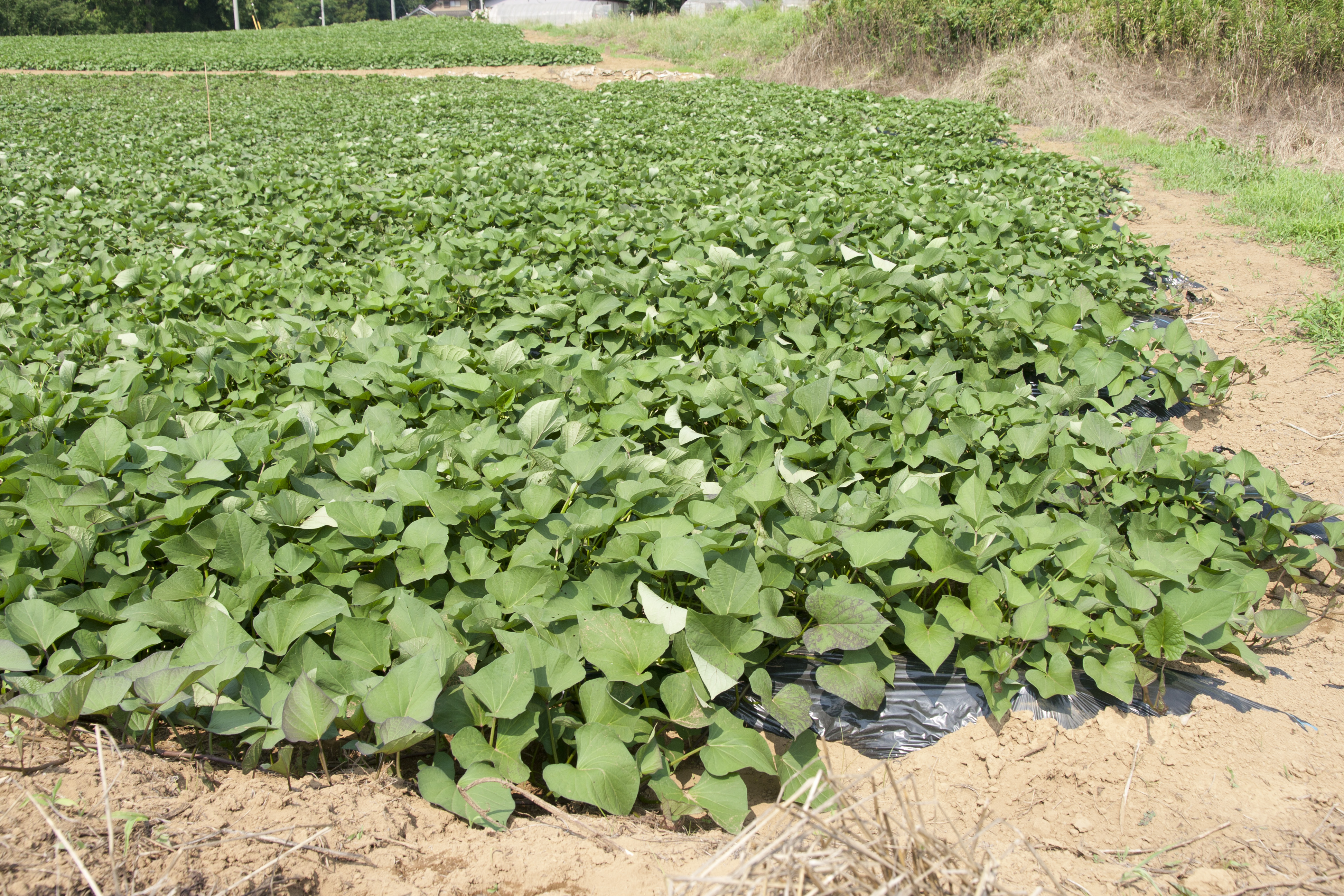 Sweet potato field in Namegata City, Ibaraki Pref., Japan